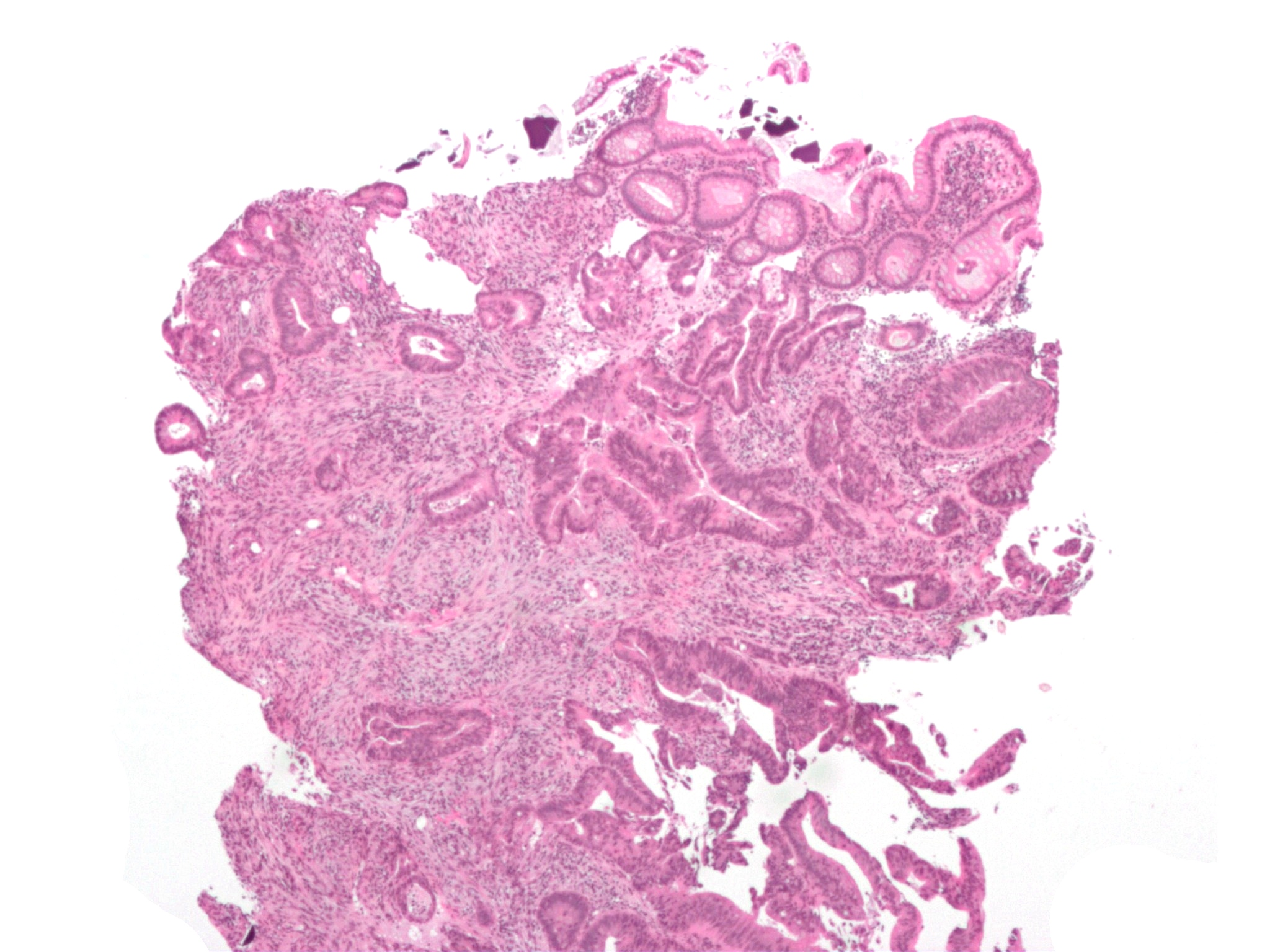 Micrograph of an invasive cecal adenocarcinoma -- a type of colon cancer. H&E stain. The adenocarcinoma is seen in the middle (blue=bad in histology) and surrounded by a cellular desmoplastic stroma indicative of invasion. The epithelium at the top right of the image is near normal. In the bowel lumen one can see sodium polystyrene sulfonate crystals -- a binder for potassium. The patient had chronic renal failure and the typically concomitant hyperkalemia and was thus on sodium polystyrene sulfonate crystals (Kayexalate).